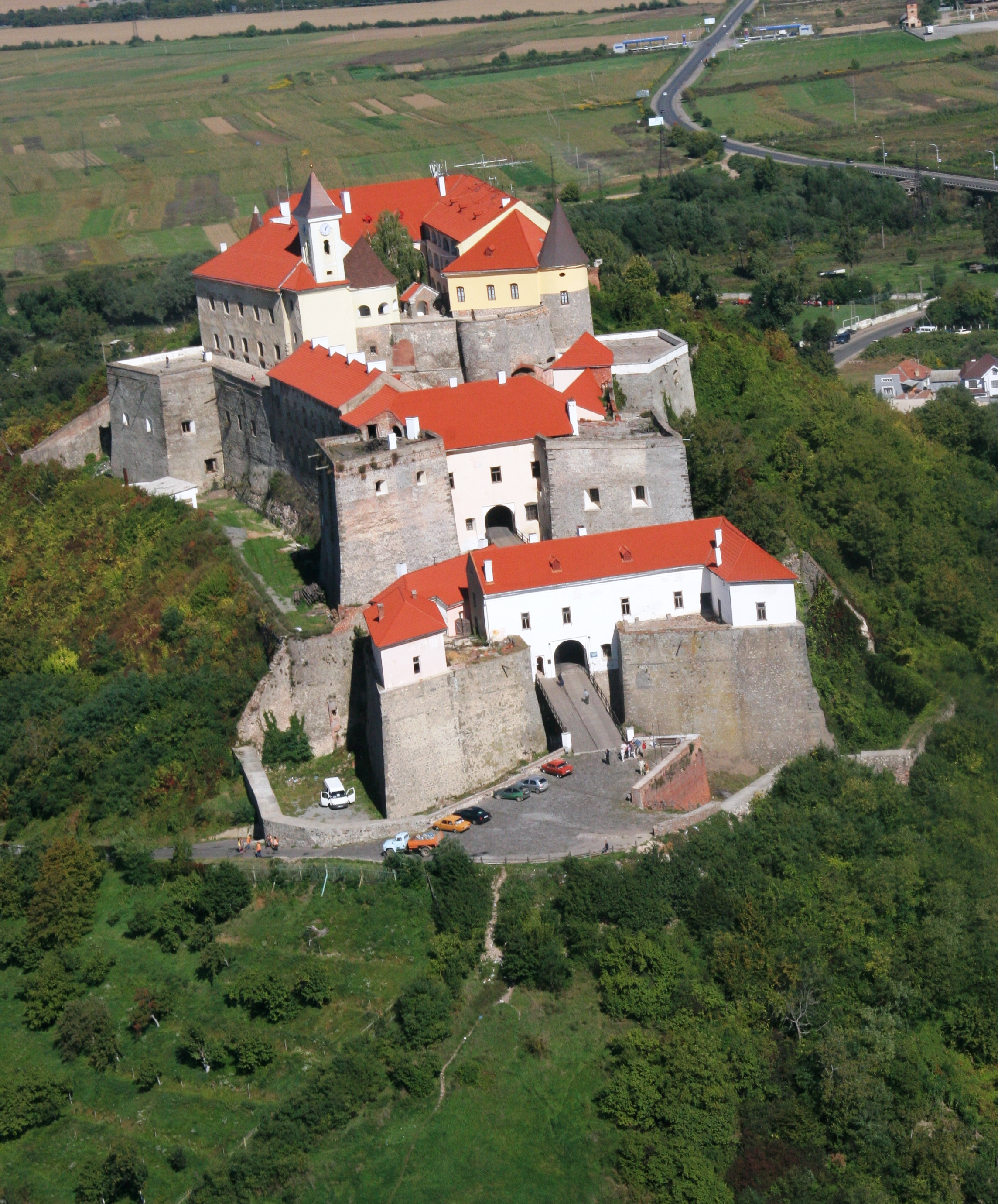 вигляд із півдня